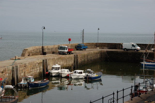 Annalong harbour. Compared to its neighbour Kilkeel, Annalong has never been a major fishery harbour. It is small and can be tricky to enter. It can accommodate only the smallest boats. This is the view to sea.